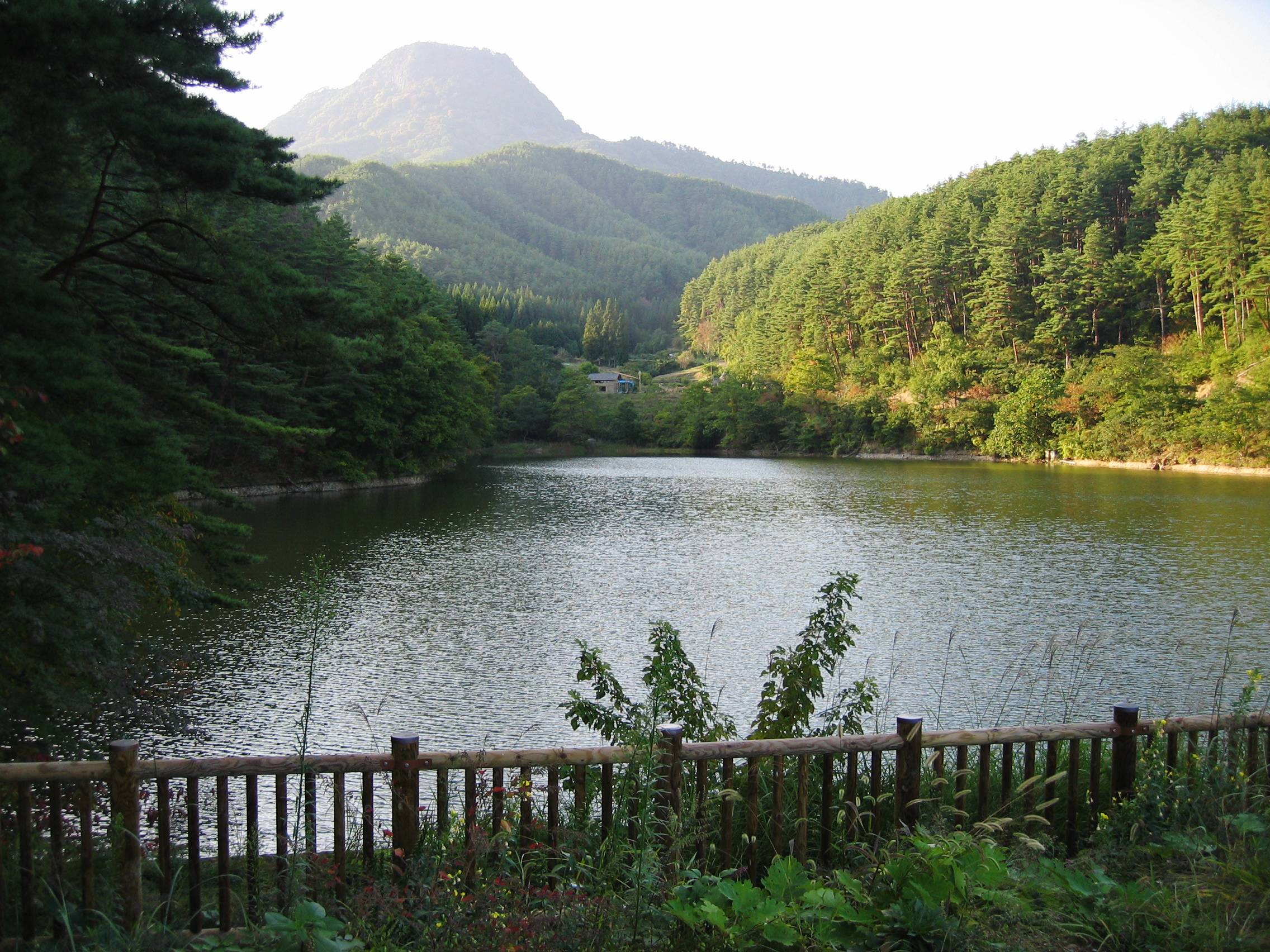 Shionoiri Pond. Mount Komayumi in the background.